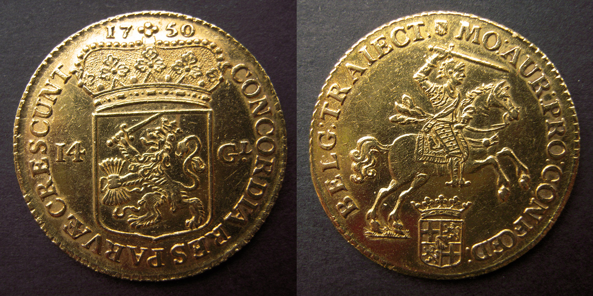 Golden rider of Utrecht, 1750.